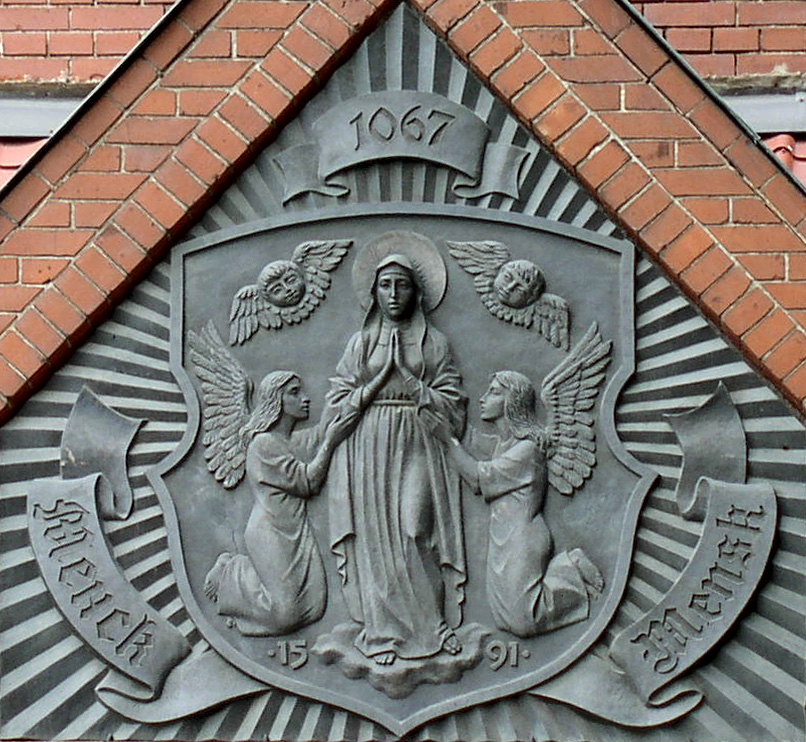 Coat of Arms of Minsk from the facade of Church of Saint Simon and Helena, Minsk, Belarus.